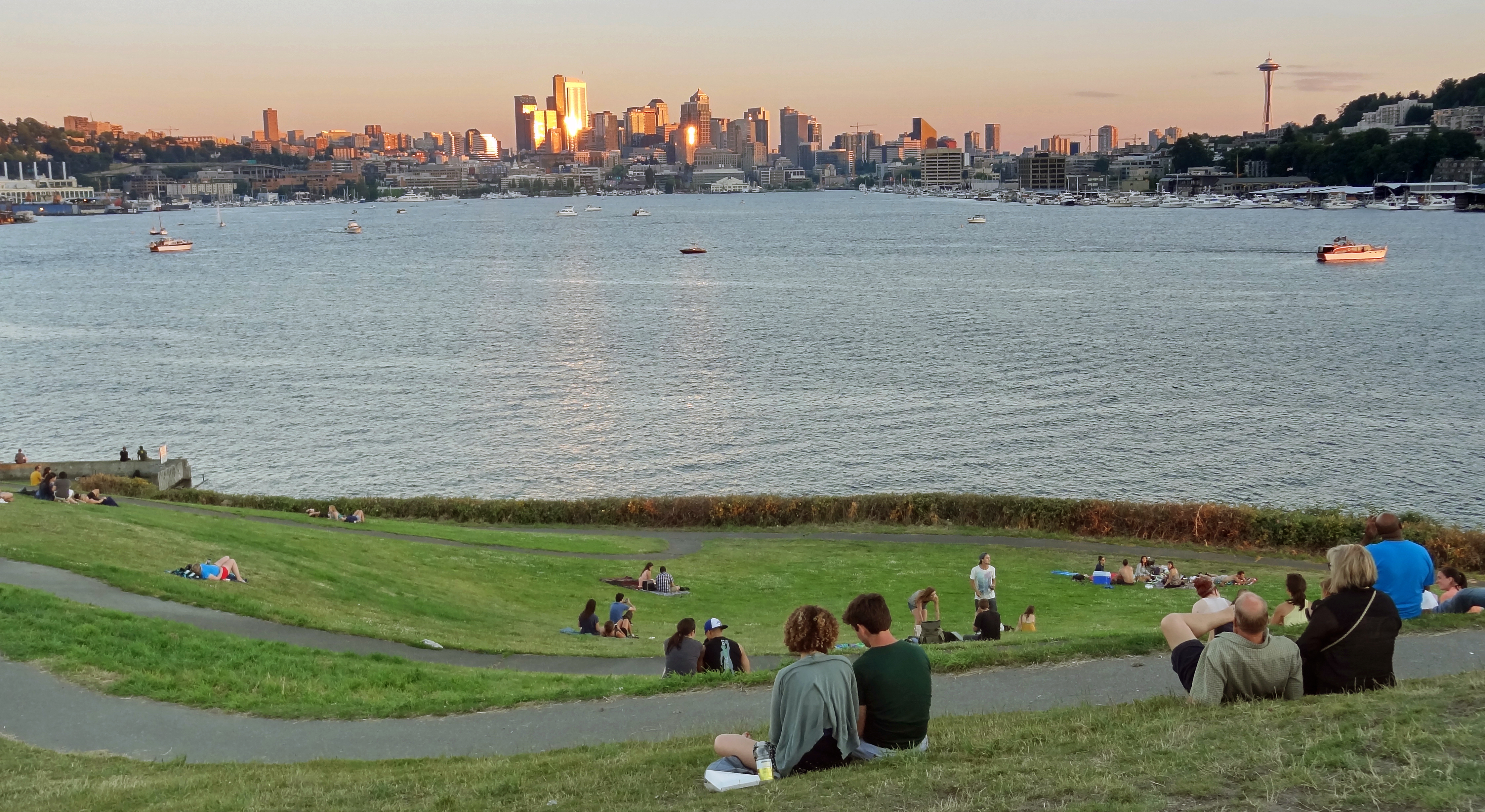 The Seattle skyline at sunset, seen across Lake Union from "The Mound" at Gas Works Park